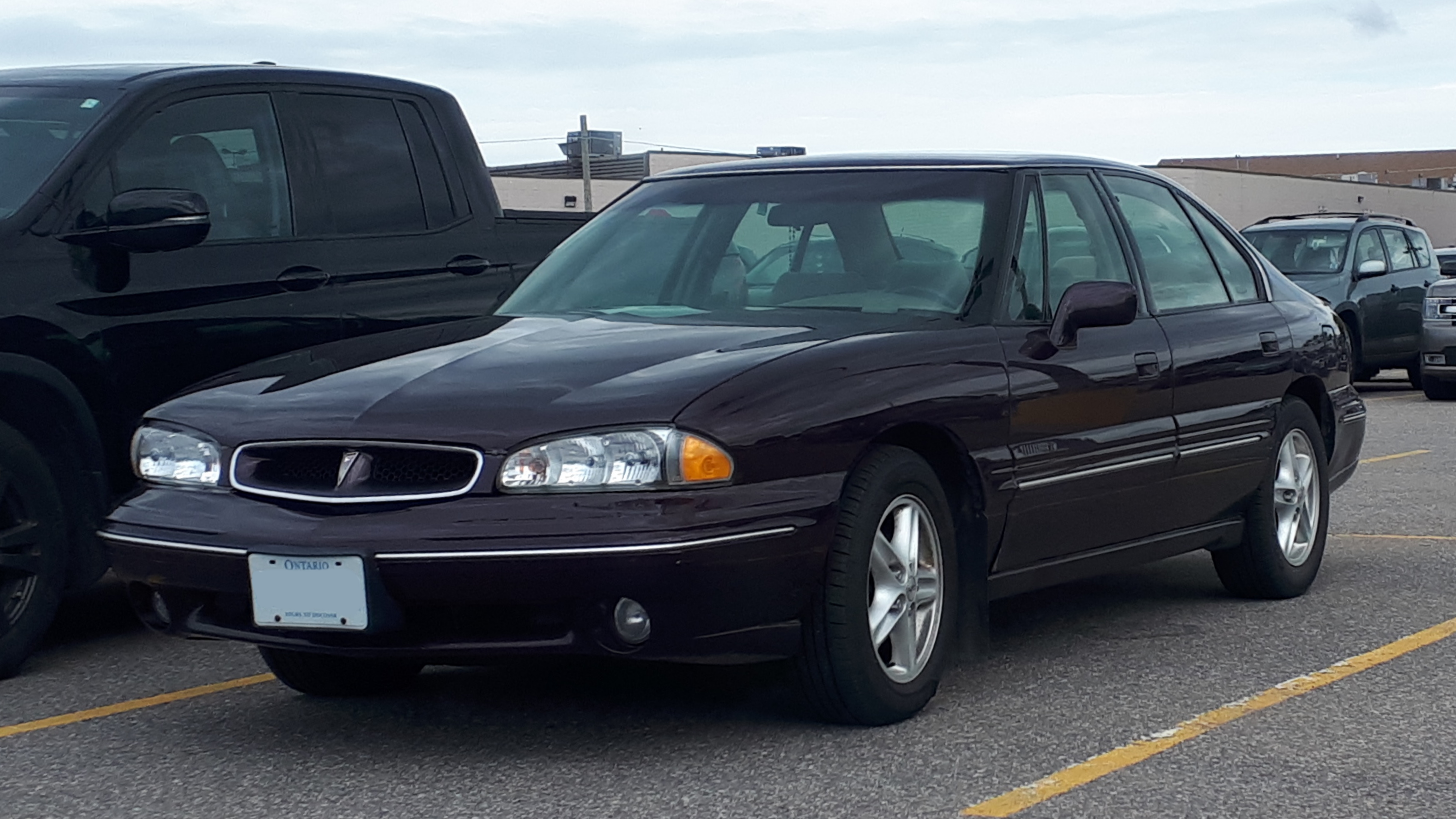 1996-1999 Pontiac Bonneville photographed in Sault Ste. Marie, Ontario, Canada